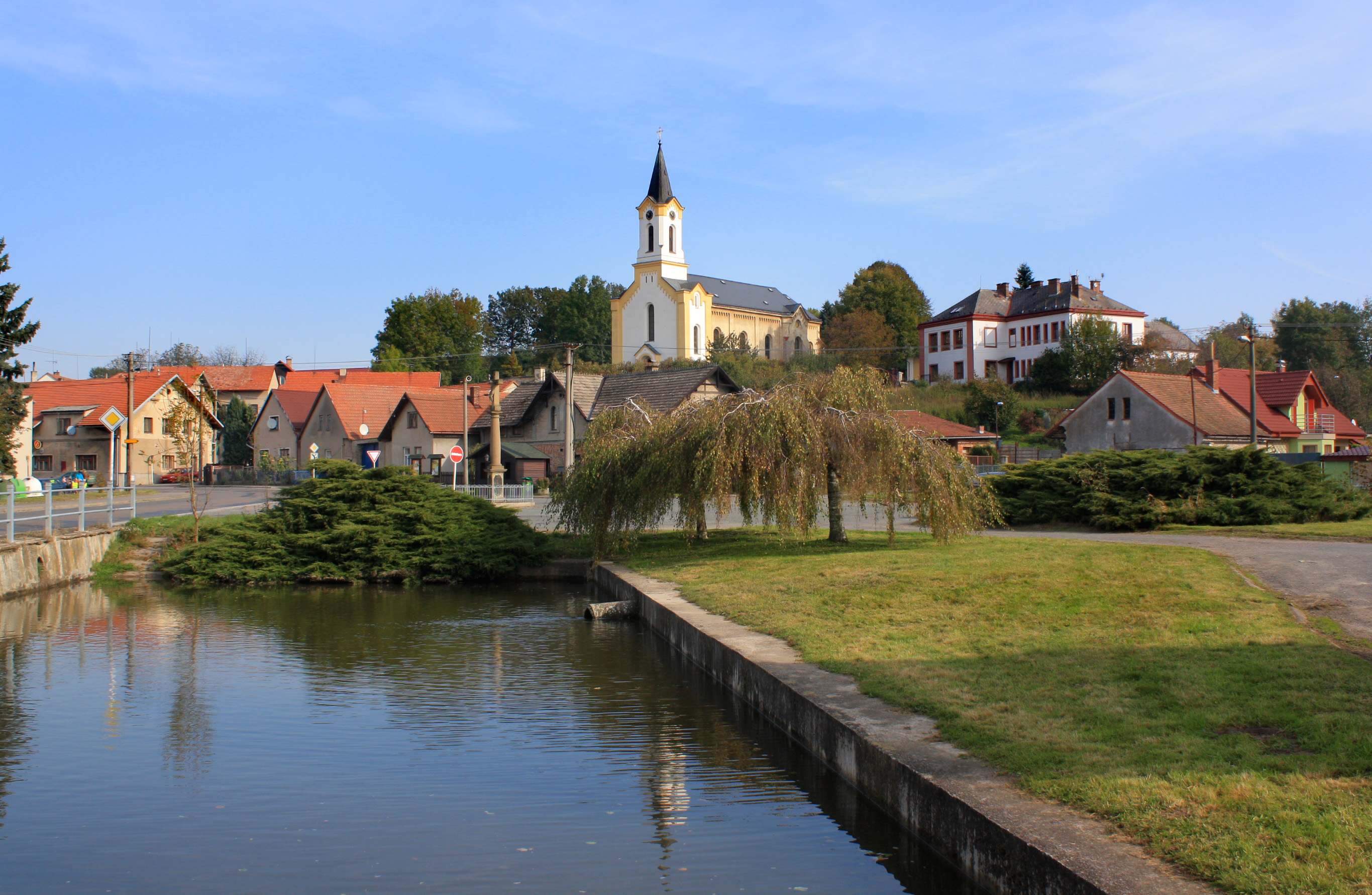 Common in Skořenice, Czech Republic